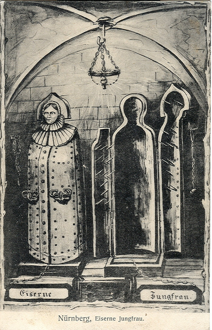 Postcard, dated 19.8.1921. Title:"Nuremberg - Iron Maiden"